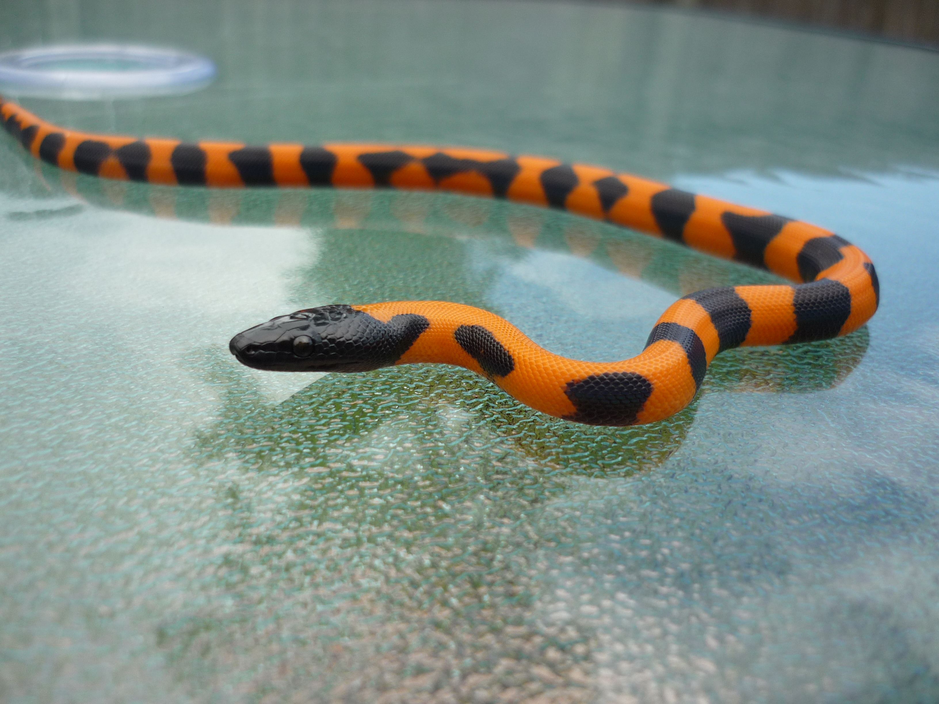 Juvenile Bismark Ringed Python